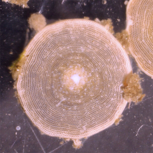 Marginopora sp. (銭石、"zeni-ishi" in Japanese)/ from Iriomote Island, Okinawa Pref., Japan / Microscope: KEYENCE VHX Series